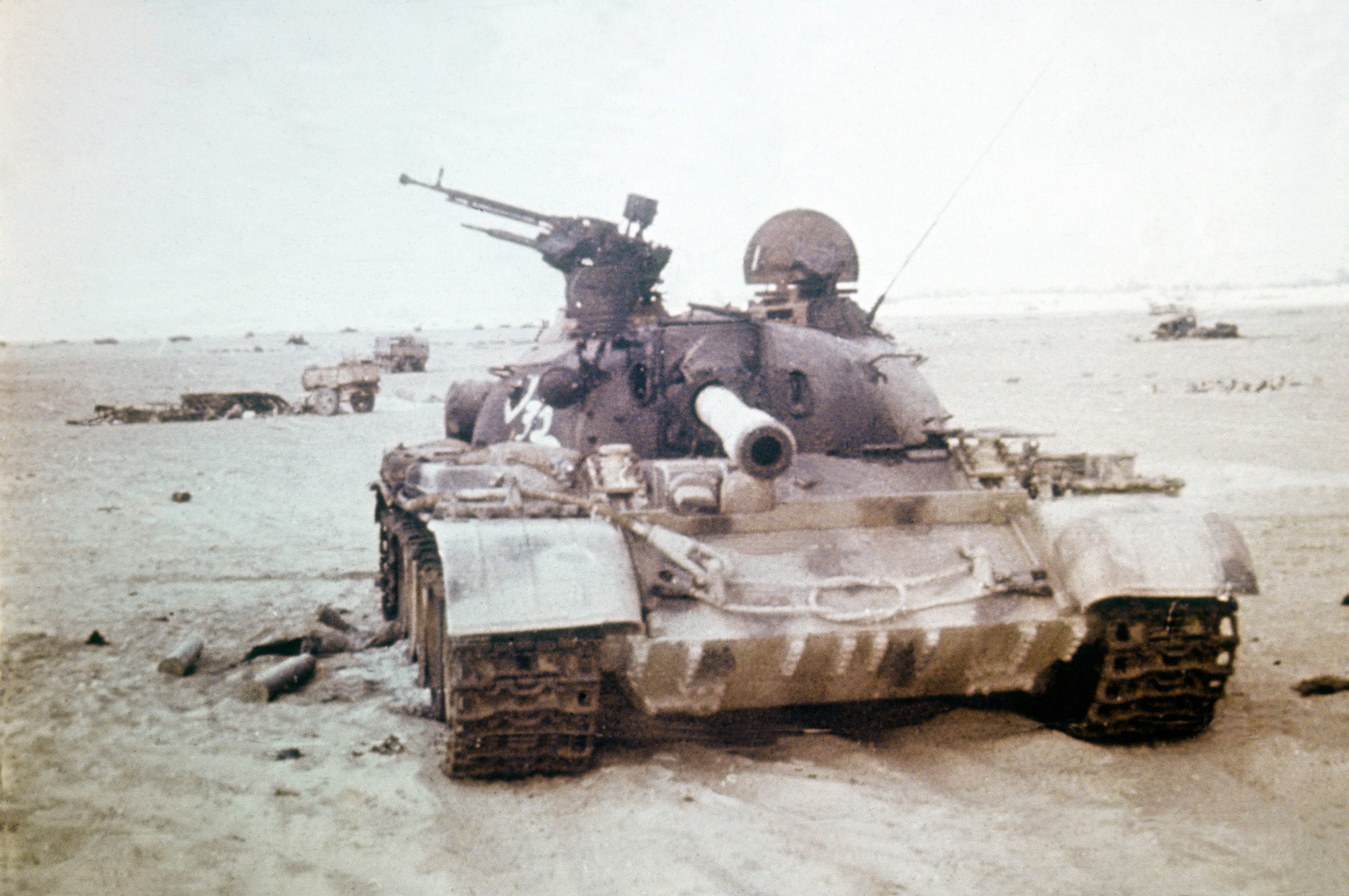 Front view of a wrecked battle tank.